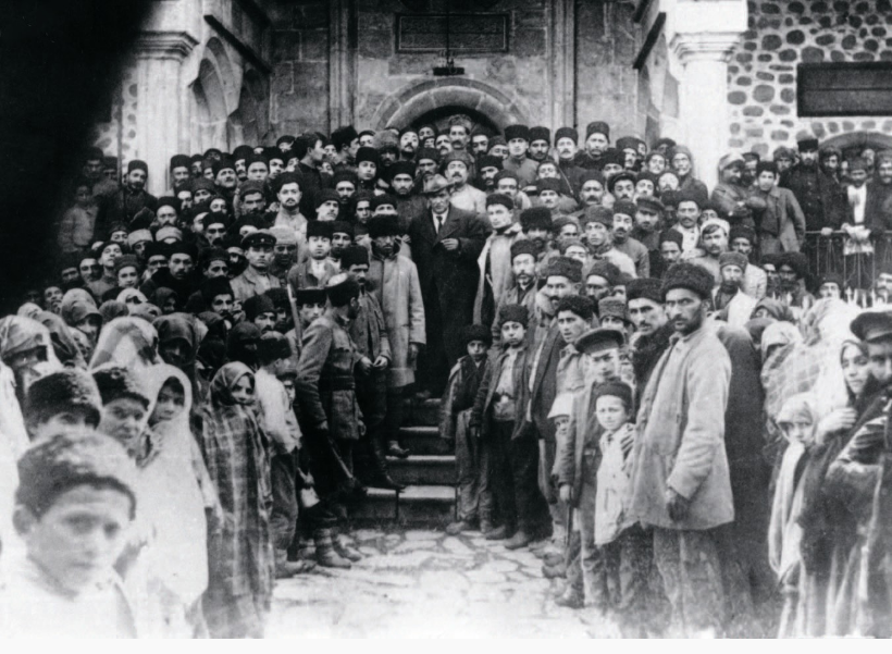 Nariman Narimanov in Shusha (1920)